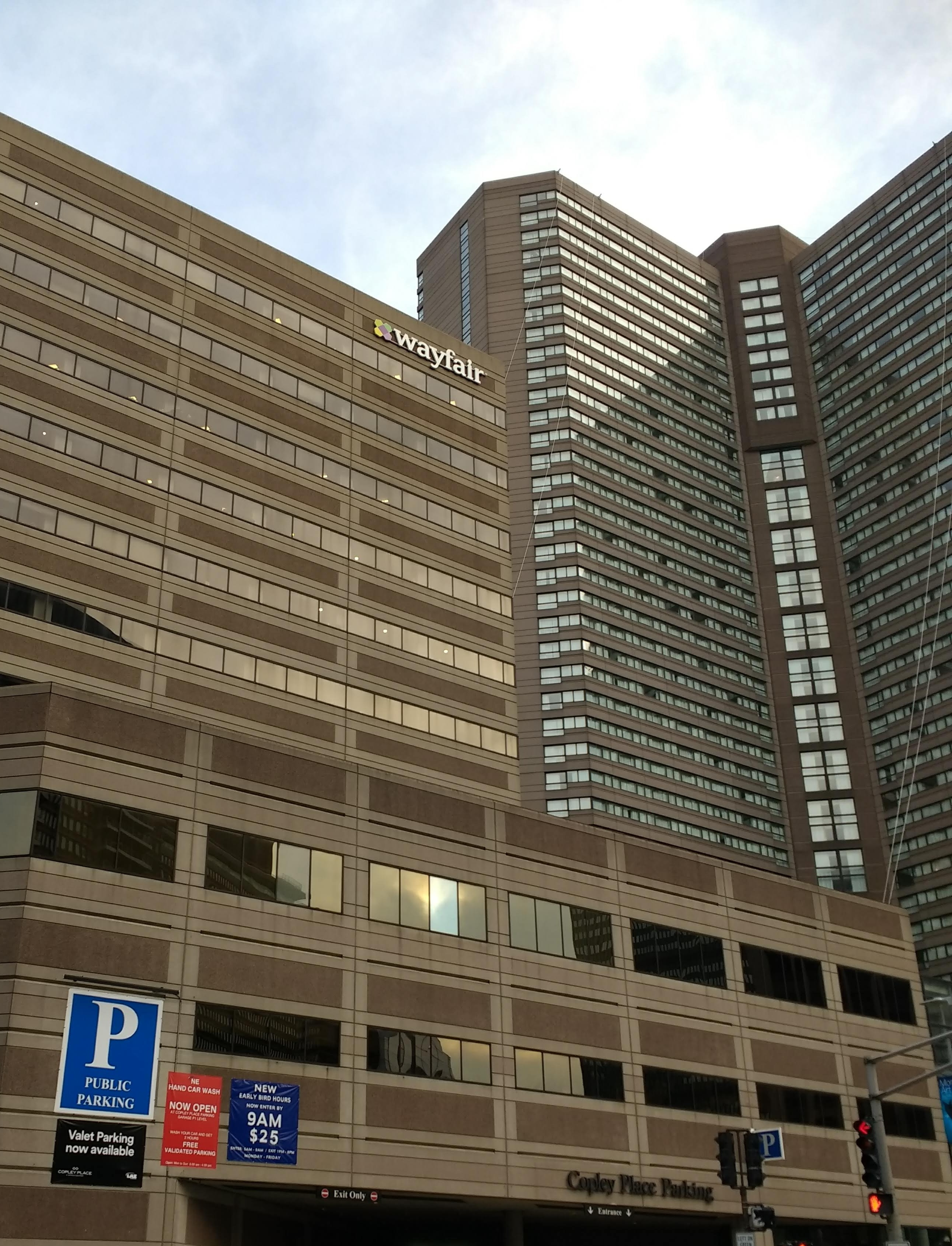 The Wayfair Headquarters in the Back Bay section of Boston, Massachusetts in 2018.